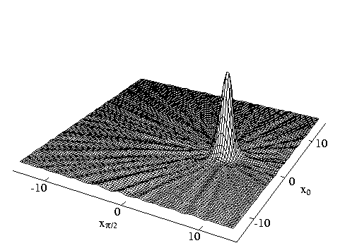 measured Wigner functions of a coherent state. The Wigner function was reconstructed with the Filtered back projection.